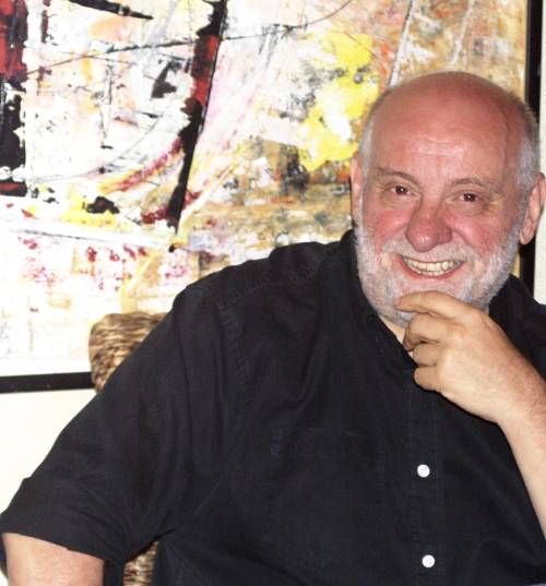 Riccardo Piferi